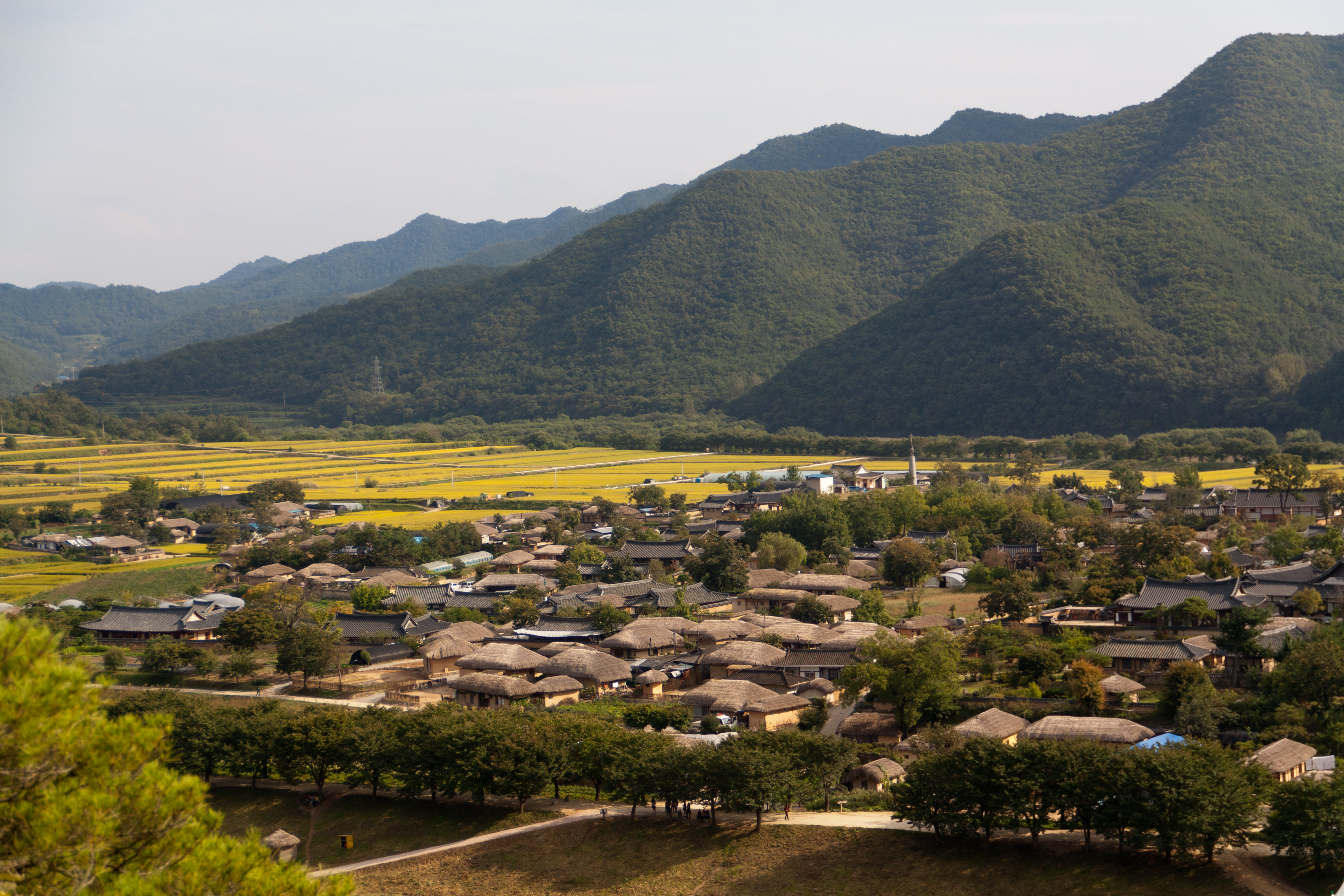 Hahoe Folk Village